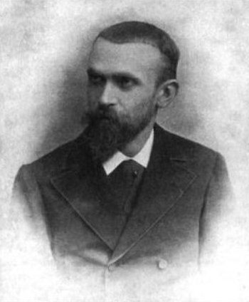 Photograph is from page 174 From the Google Books archive: Title The critic, Volume 29 Publisher Good Literature Pub. Co., 1898 Original from Princeton University Digitized Apr 18, 2008